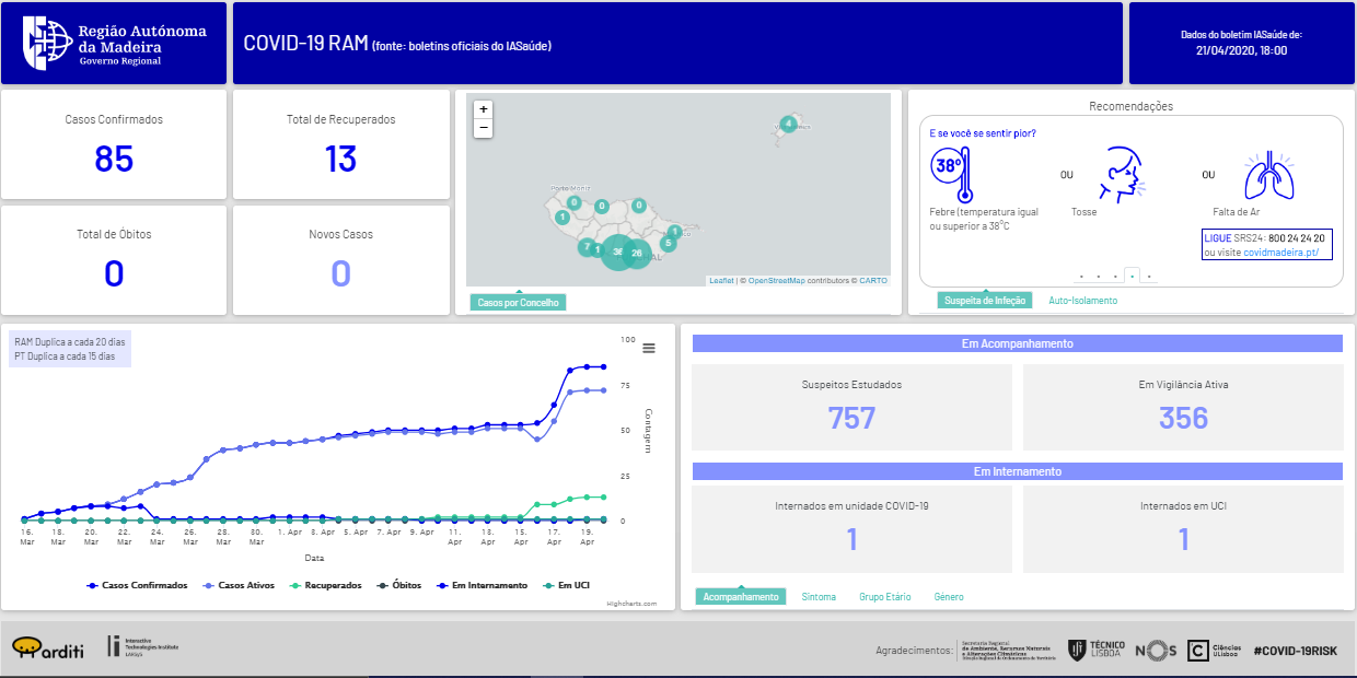 Online dashboard of COVID-19 infections in Madeira provided by SRS